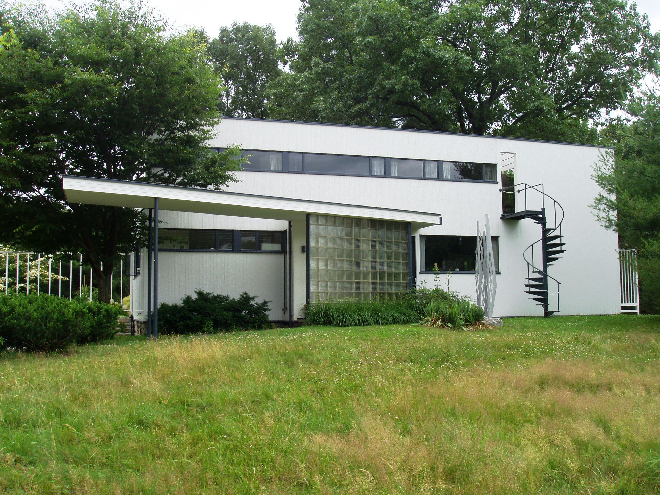 Walter Gropius House, Lincoln, Massachusetts. Front view. Photography taken by me, July 2005.